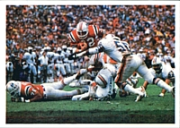 A football card from the 1986 Jeno's Pizza NFL football card stickers set of New England Patriots running back Craig James rushing the ball against the Miami Dolphins in the 1985 AFC Championship game on January 12, 1986. The card is numbered #35 in the set. The back of the card reads: THE PATRIOTS HEAD FOR THE SUPER BOWL New England's Craig James runs through fallen tacklers to pick up several of the 105 yards he gained in the Patriots' victory over Miami in the 1985 AFC Championship Game. The Patriots rushed for 255 yards and took advantage of six turnovers in their 31-14 victory. It snapped their 18-game losing streak against the Dolphins in Miami.